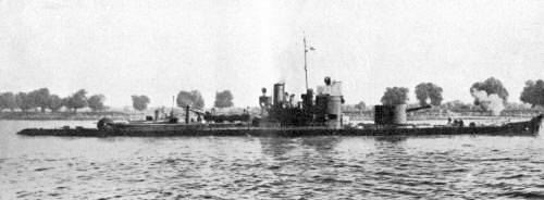 A black and white photograph of a ship underway on a river